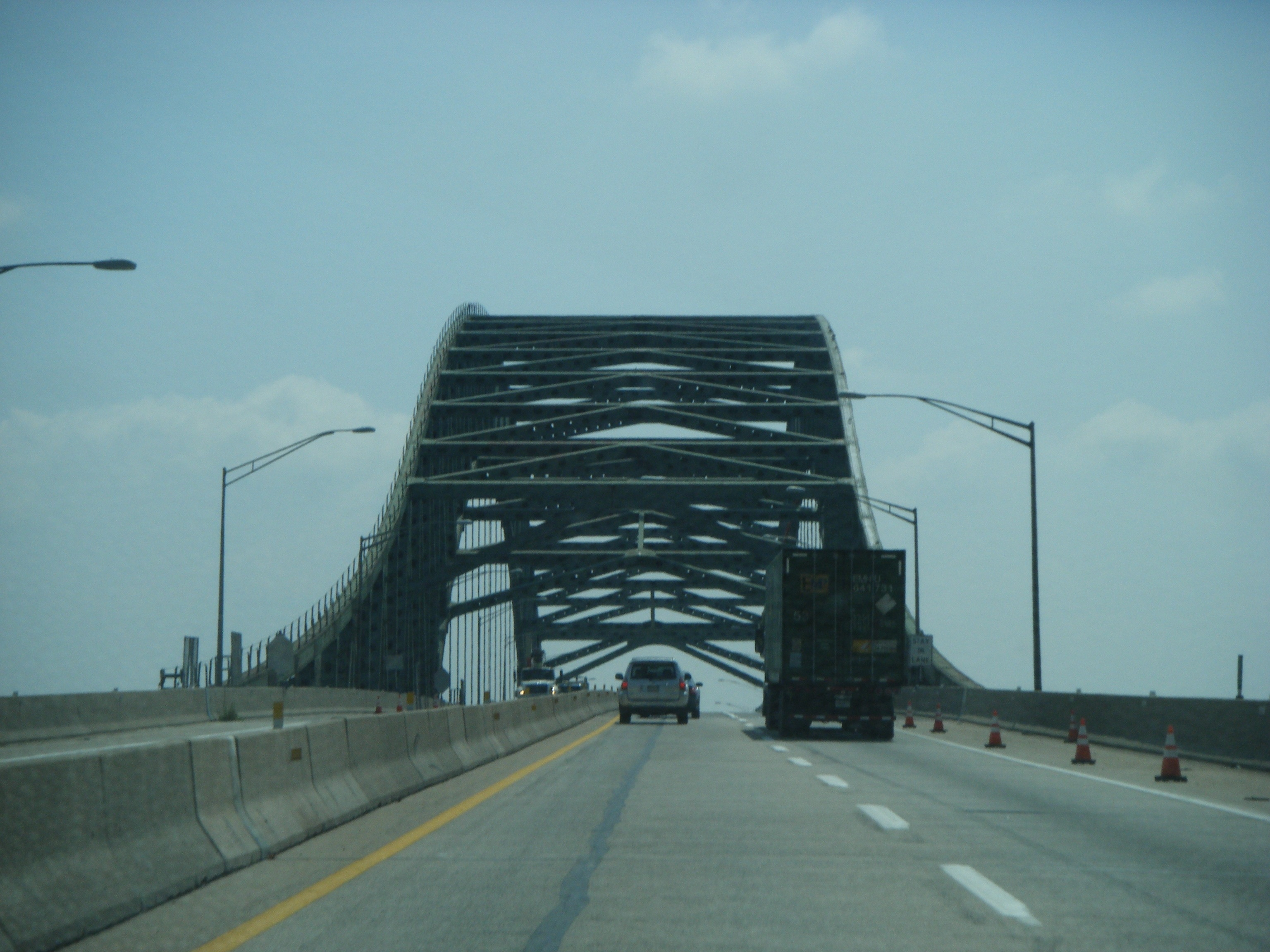 Eastbound across the Delaware River - Turnpike Toll Bridge, which connects the Pennsylvania Turnpike (Interstate 276) in Bristol Township, Pennsylvania to the Pearl Harbor Memorial Extension of the New Jersey Turnpike (Interstate 95) in Burlington Township, New Jersey.